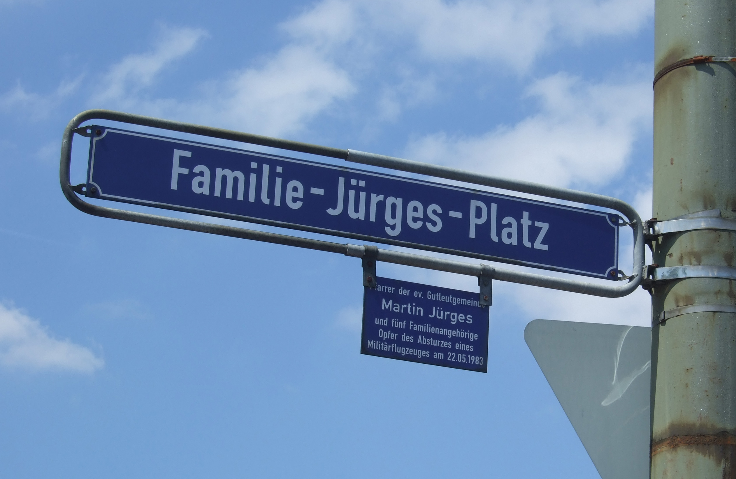 Familie-Jürges-Platz roadsign